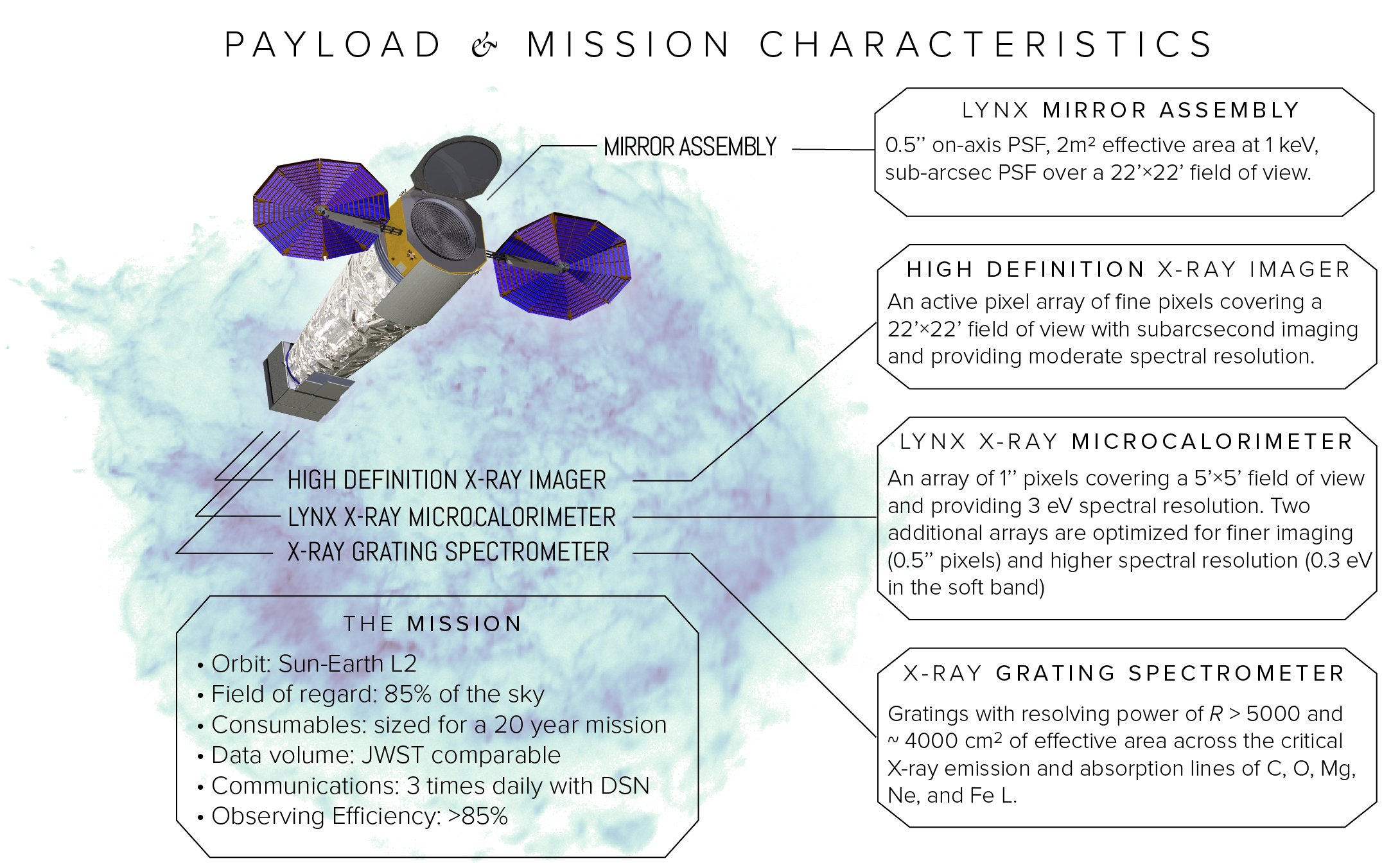 A figure detailing the spacecraft and payload of the Lynx X-ray Observatory Mission Concept